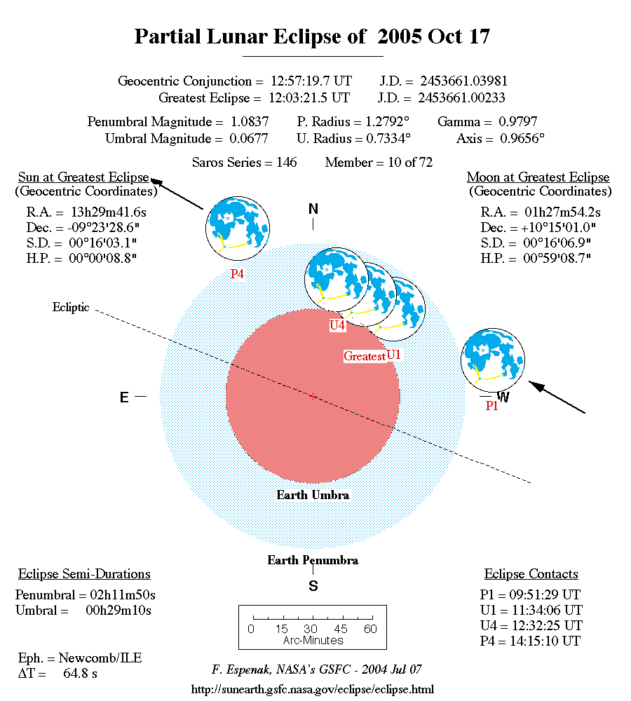 Sketch of the 2005-10-17 lunar eclipse.